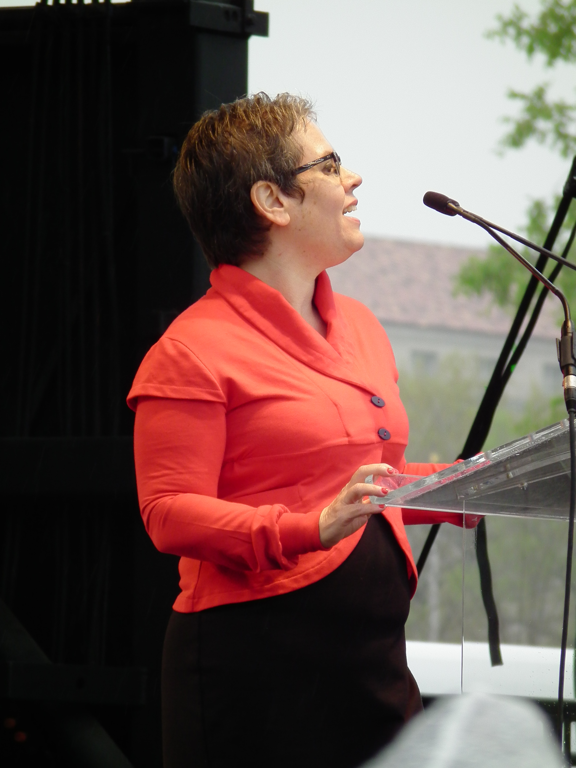 Greta Christina Greta Christina is one of the most widely-read and well-respected bloggers in the atheist blogosphere. She blogs at the cleverly named Greta Christina’s Blog, and is a regular contributor on atheism to the online political magazine, AlterNet. She was ranked by an independent analyst as one of the Top Ten most popular atheist bloggers, and her writing has appeared in numerous magazines, newspapers, and anthologies. She tweets at @GretaChristina. And she is author of the new book, “Why Are You Atheists So Angry? 99 Things That Piss Off the Godless,” just published on Kindle and Nook.